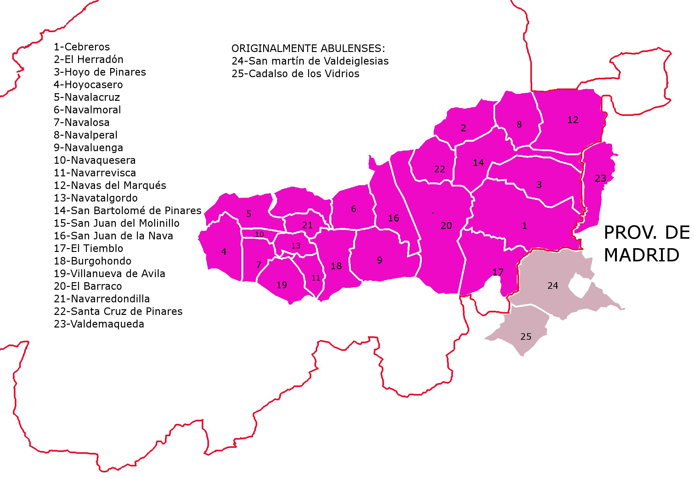 Municipios que integran el arciprestazgo de Pinares